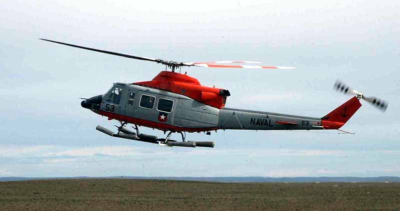 Bell 412 helicopter of the Chilean navy.